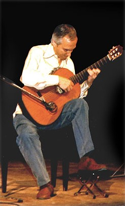 John Williams (guitarist) LIVE in Cordoba, 1986.